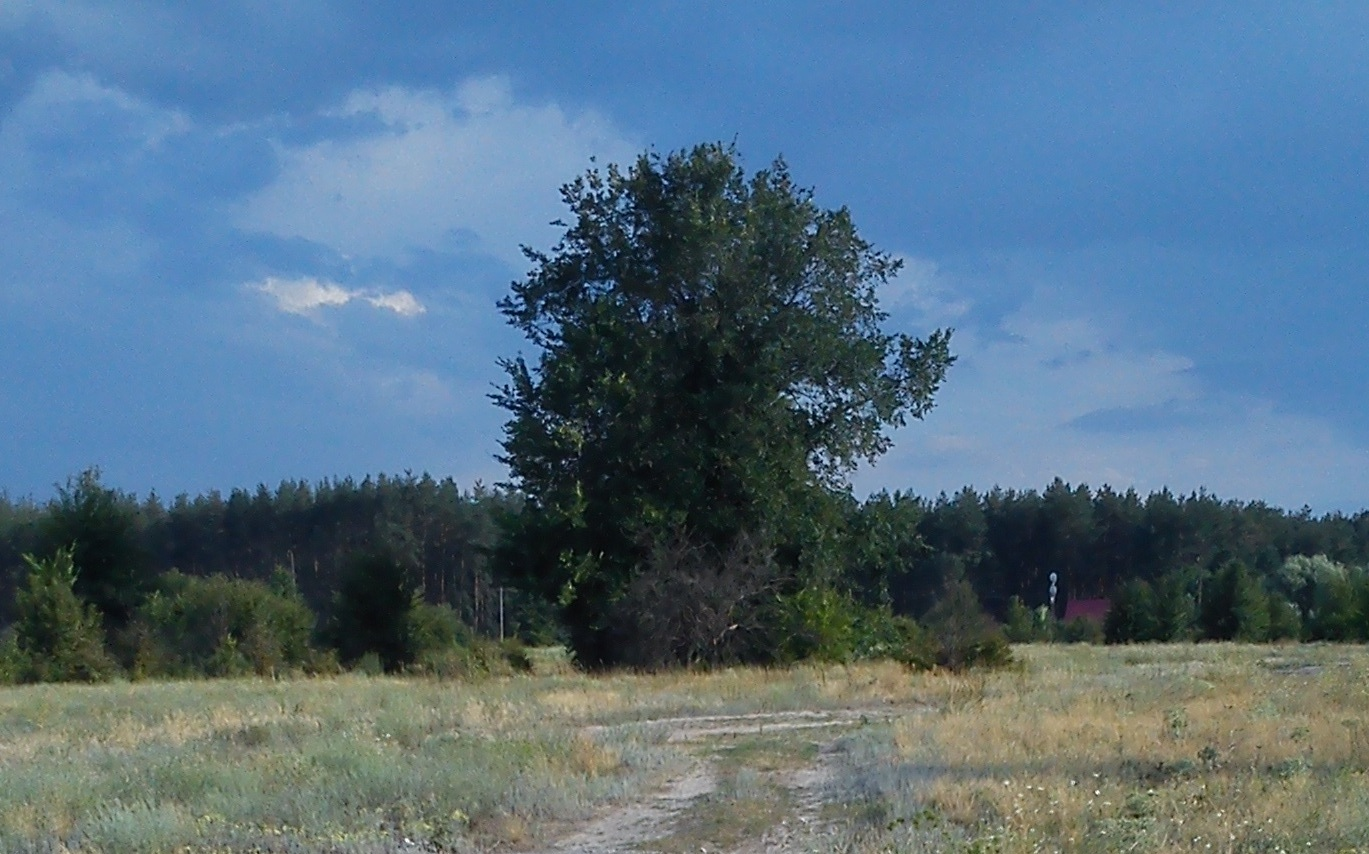 Road to Eremovka